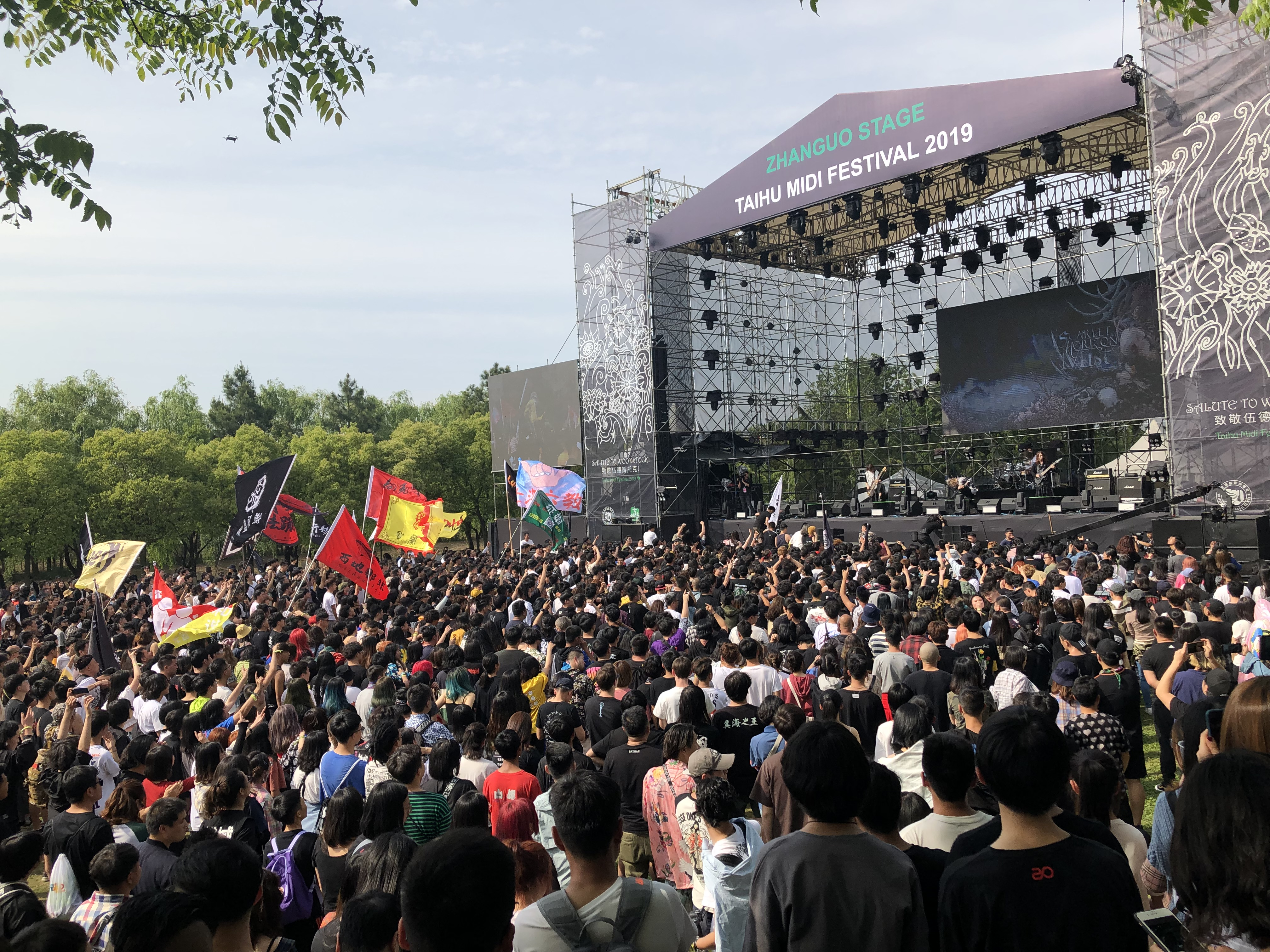 Zhanguo Stage in Taihu MIDI Festival